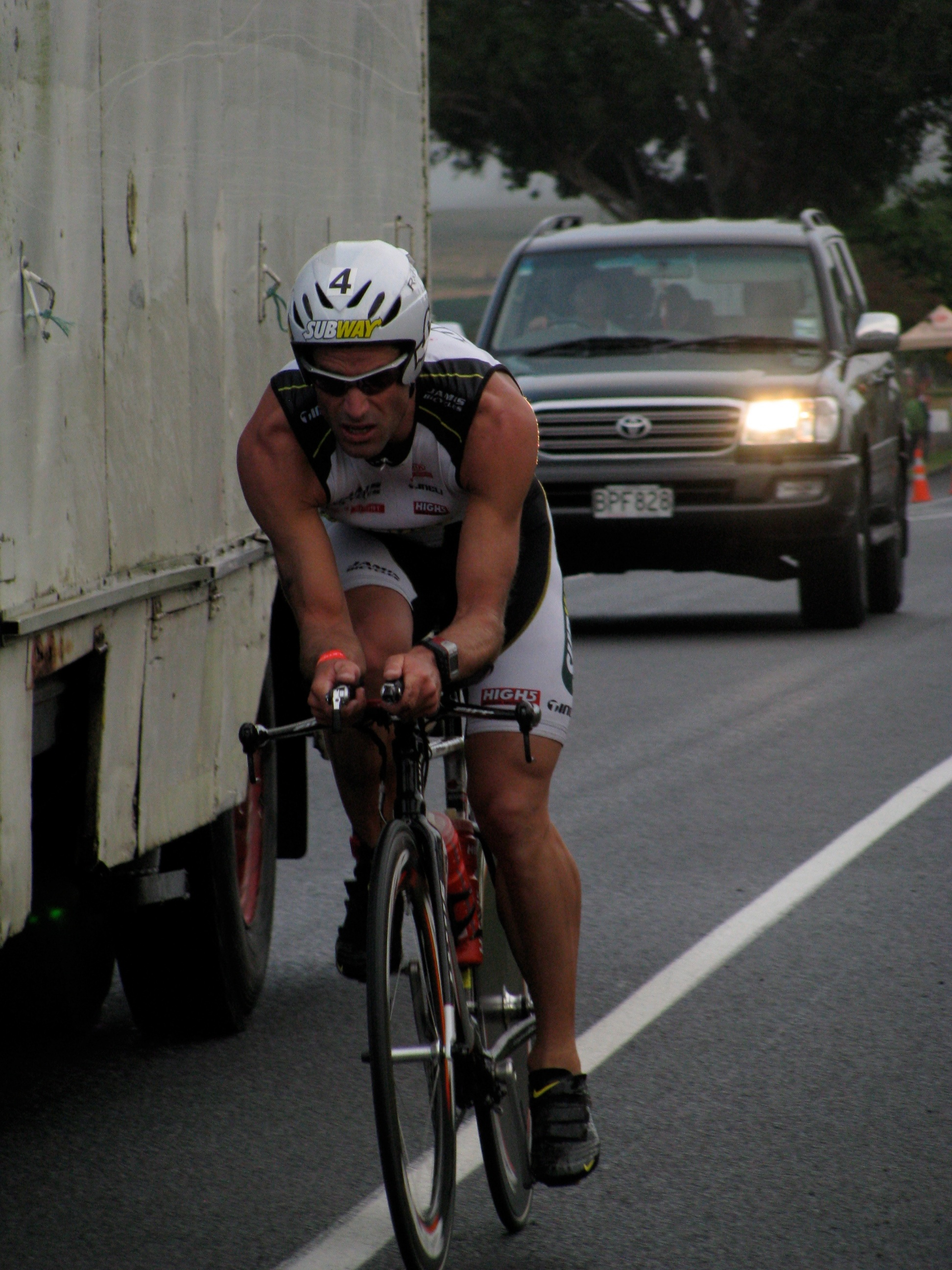 Ironman NZ 2009 Ironman New Zealand in Taupo 2009